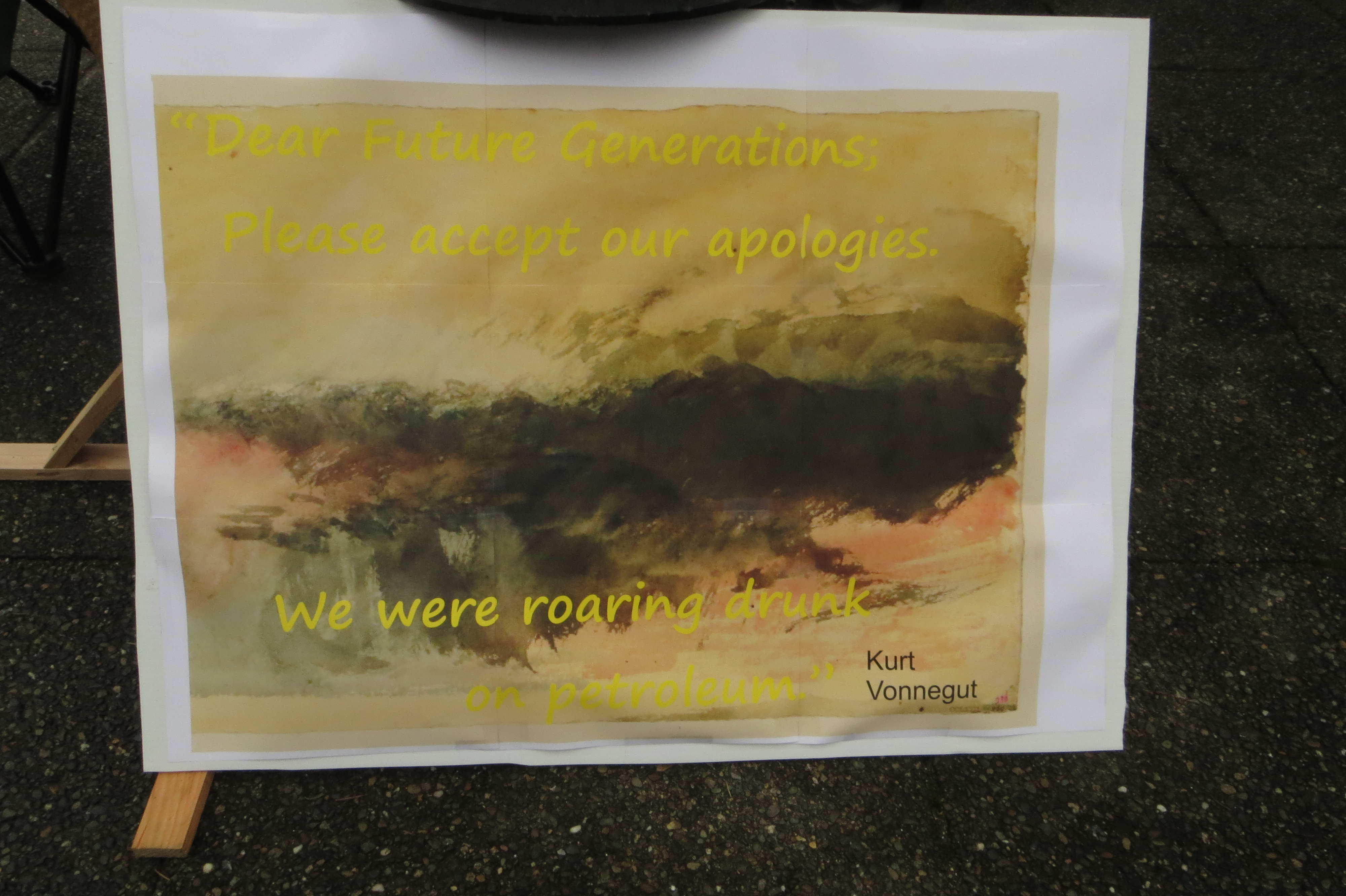 Protest at the Legislative Building in Olympia, Washington. "Dear future generations; Please accept our apologies. We were roaring drunk on petroleum." Kurt Vonnegut